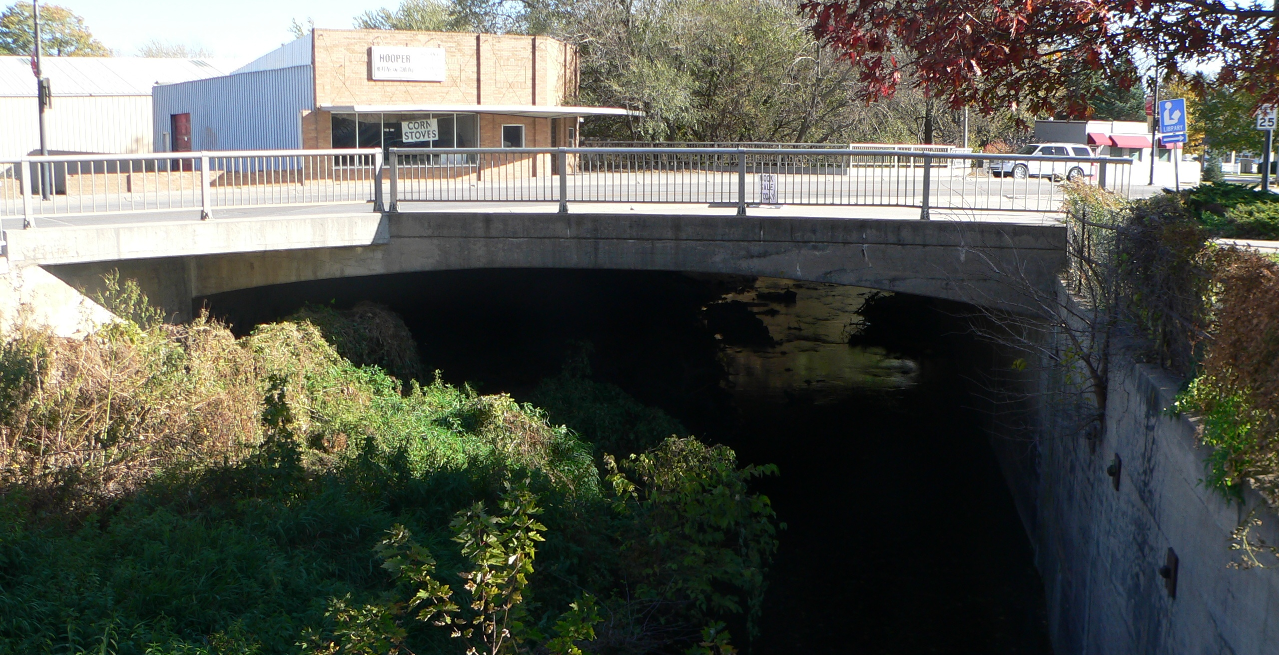 Tekamah City Bridge, carrying 13th Street (U.S. Highway 75) across Tekamah Creek in Tekamah, Nebraska; seen from upstream (west). The concrete rigid-frame bridge was built in 1934. It is listed in the National Register of Historic Places.